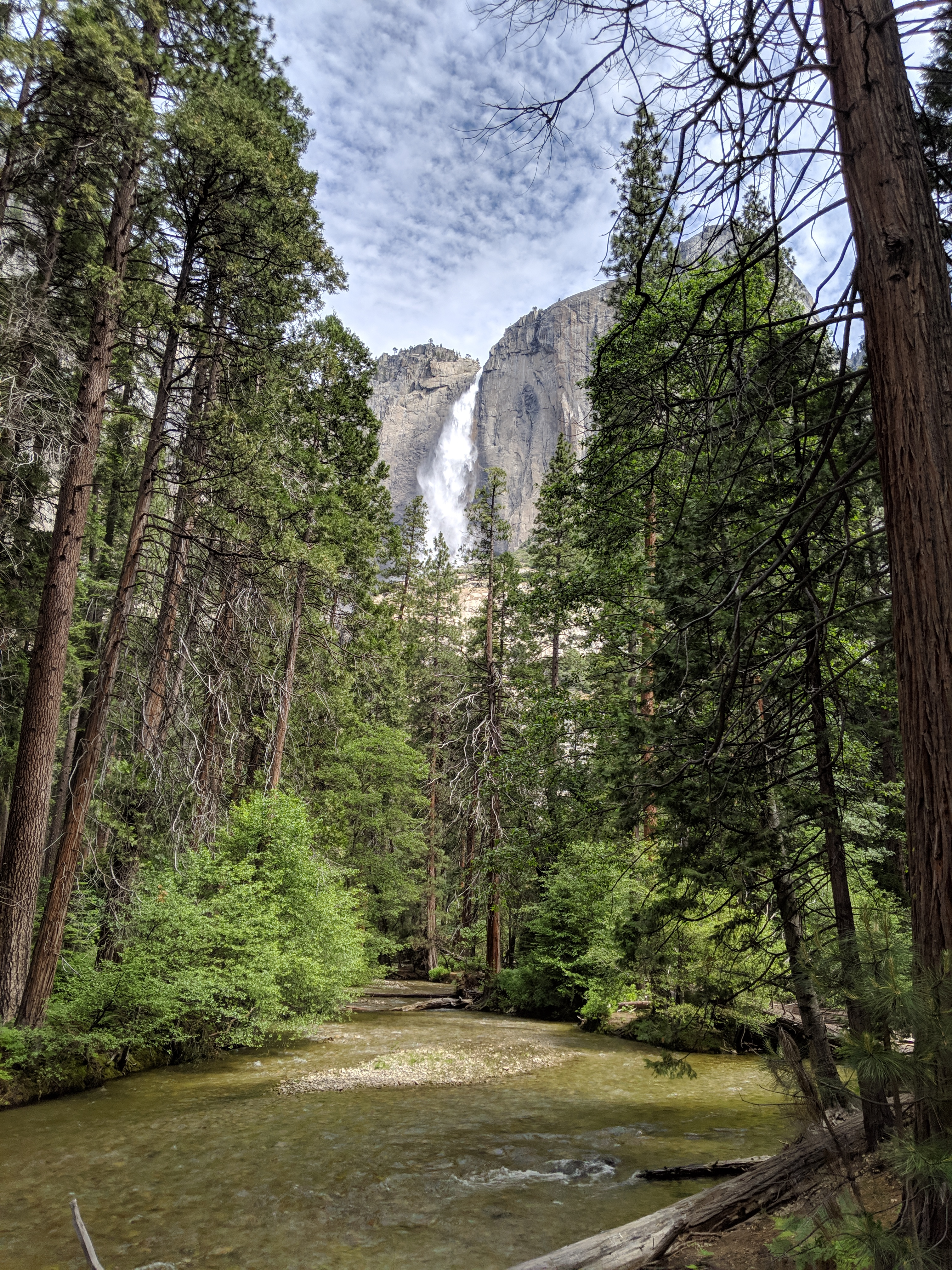 Upper Yosemite Falls as viewed from the creek side.